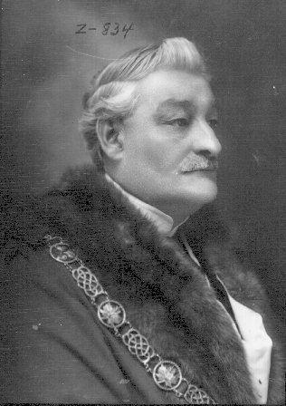 Médéric Martin, Mayor of Montreal Source: City of Montreal Archives Picture is from the 1920s so it is